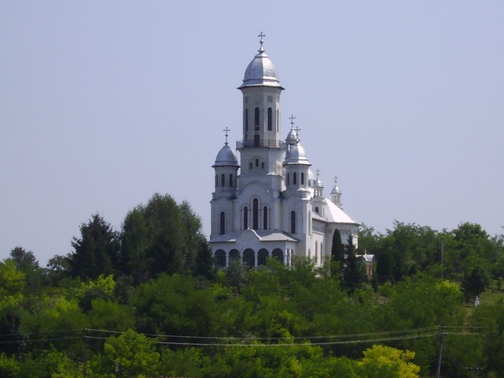 Catina Orthodox Church in Cluj County, Romania